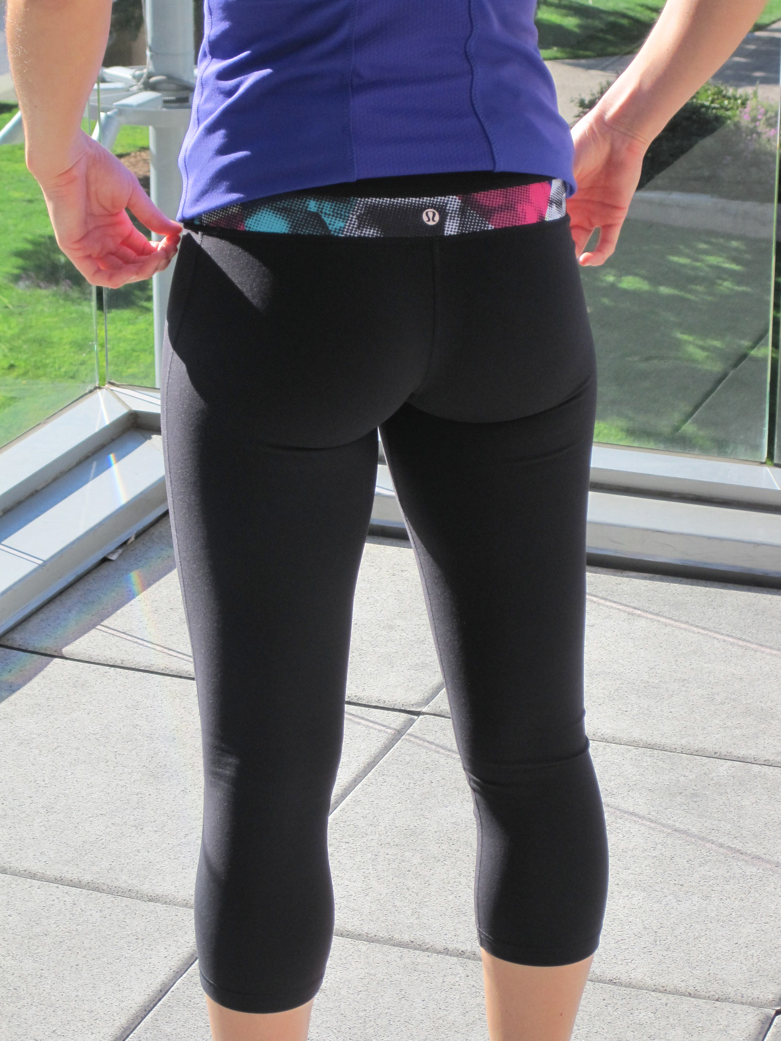 Lululemon Wunder Groove Crop, a medium rise, flat seamed, luon yoga pant